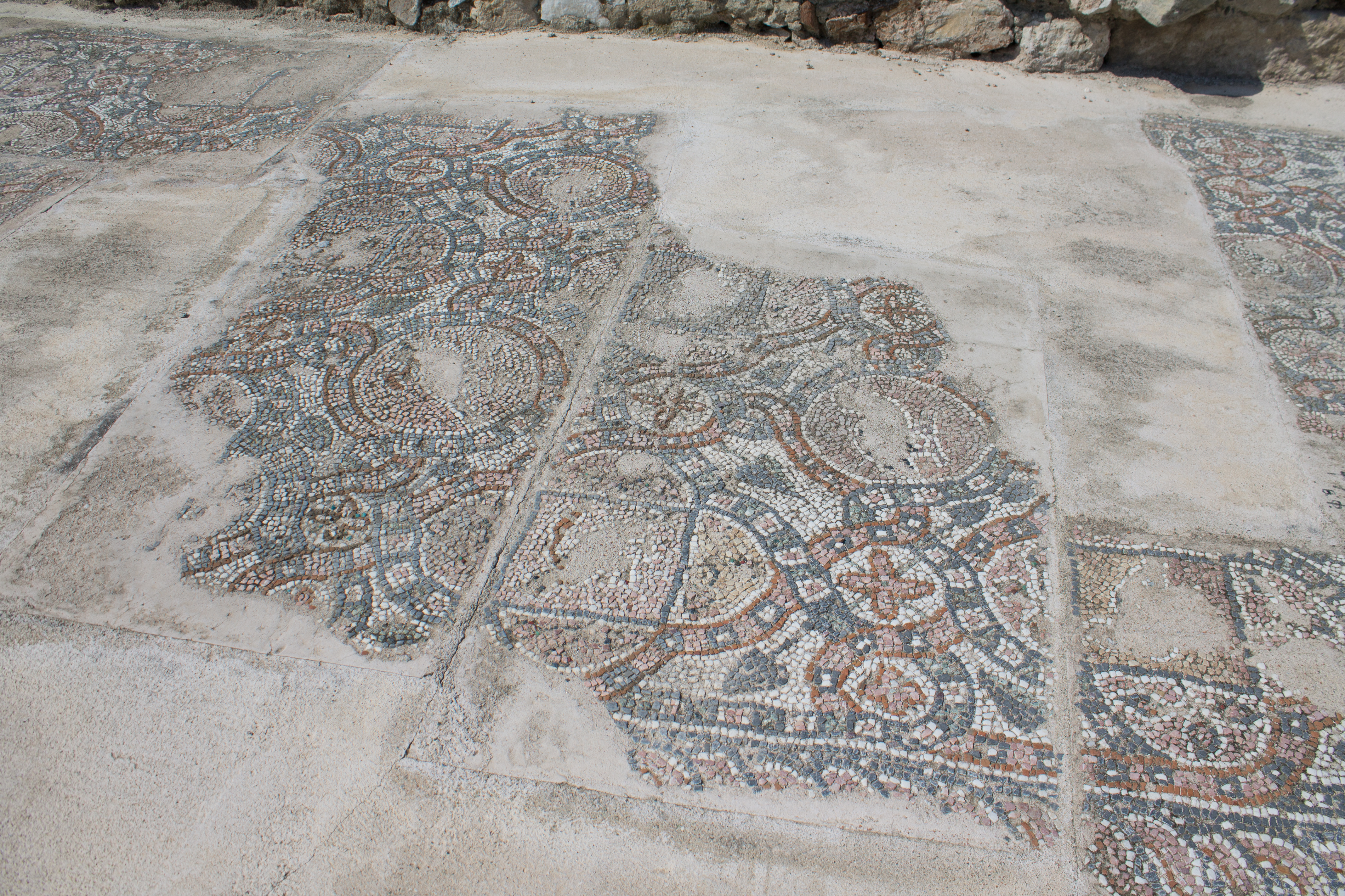 Ψηφιδωτό στον νάρθηκα της παλαιοχριστιανικής βασιλικής Αγίου Αχιλλείου«Αρχαιολογικός χώρος Φρουρίου Λάρισας»